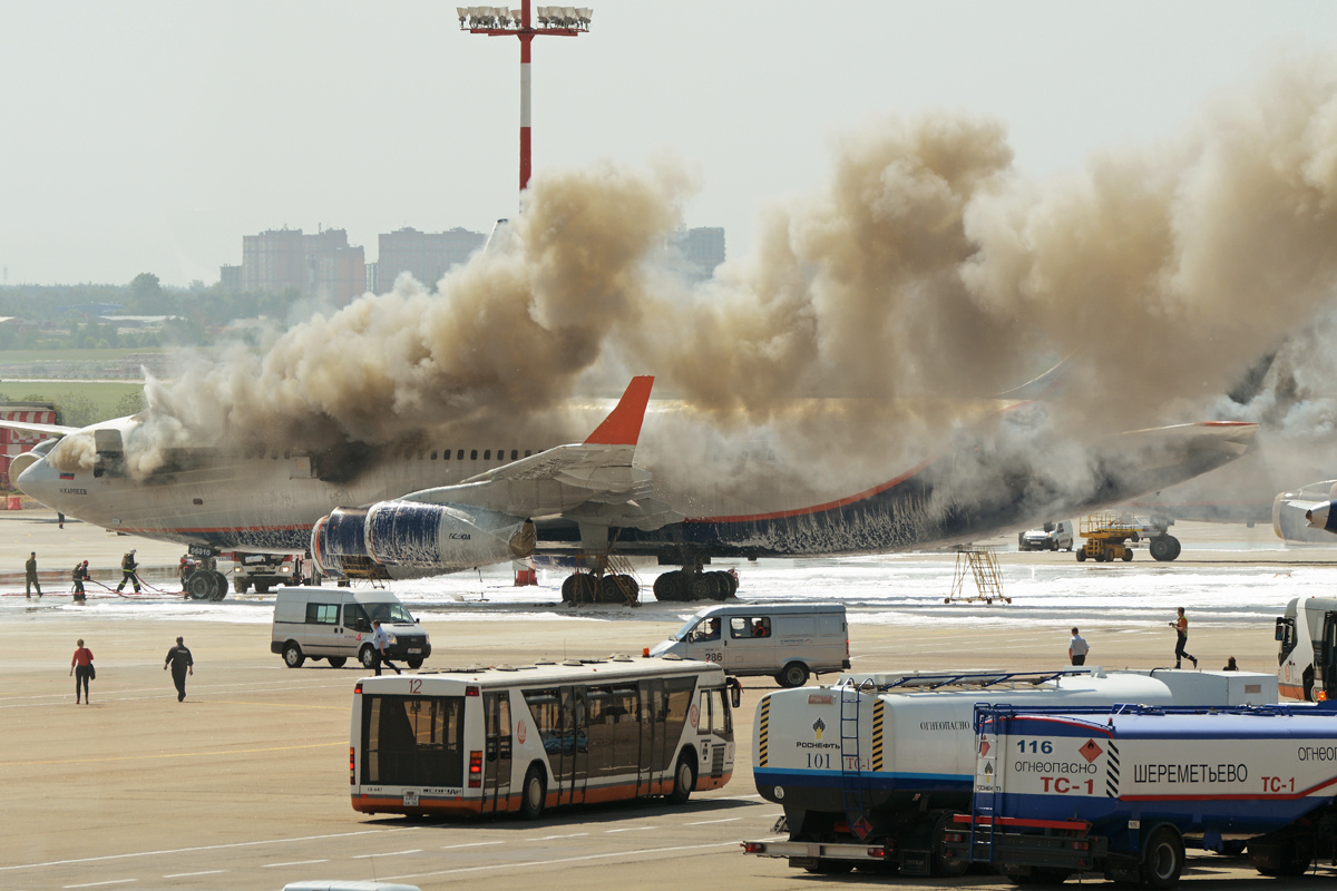 Ex-Aeroflot Ilyushin Il-96-300 (RA-96010) on fire at Sheremetyevo International Airport